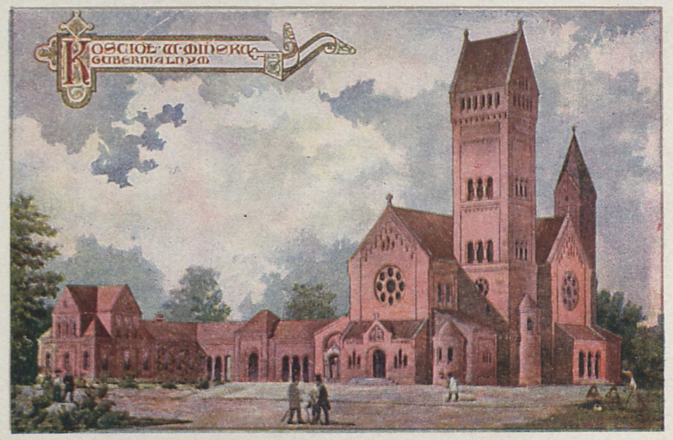 Church of Saints Simon and Helena (Minsk, Belarus) - postcard